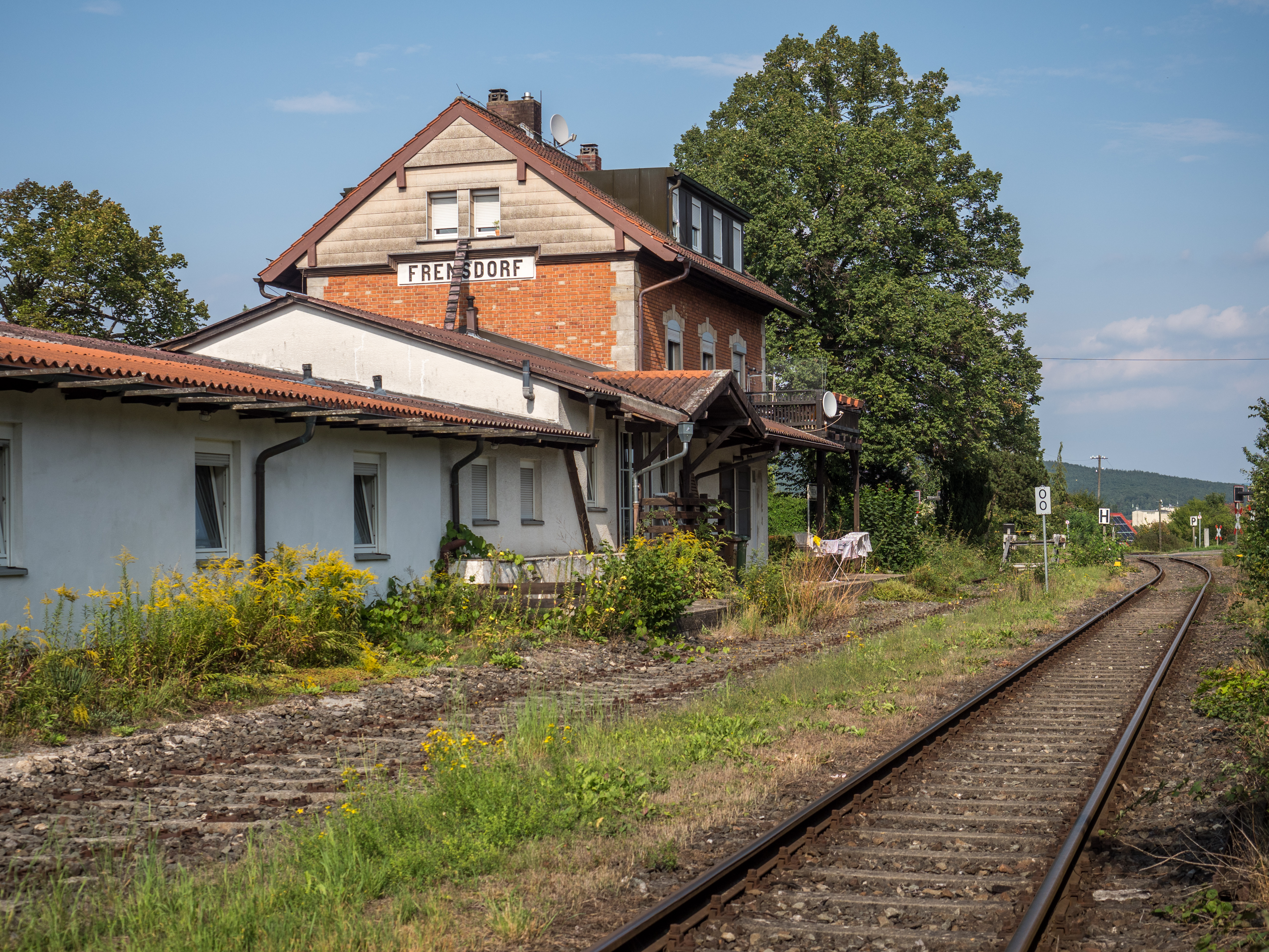 Former station building in Frensdorf